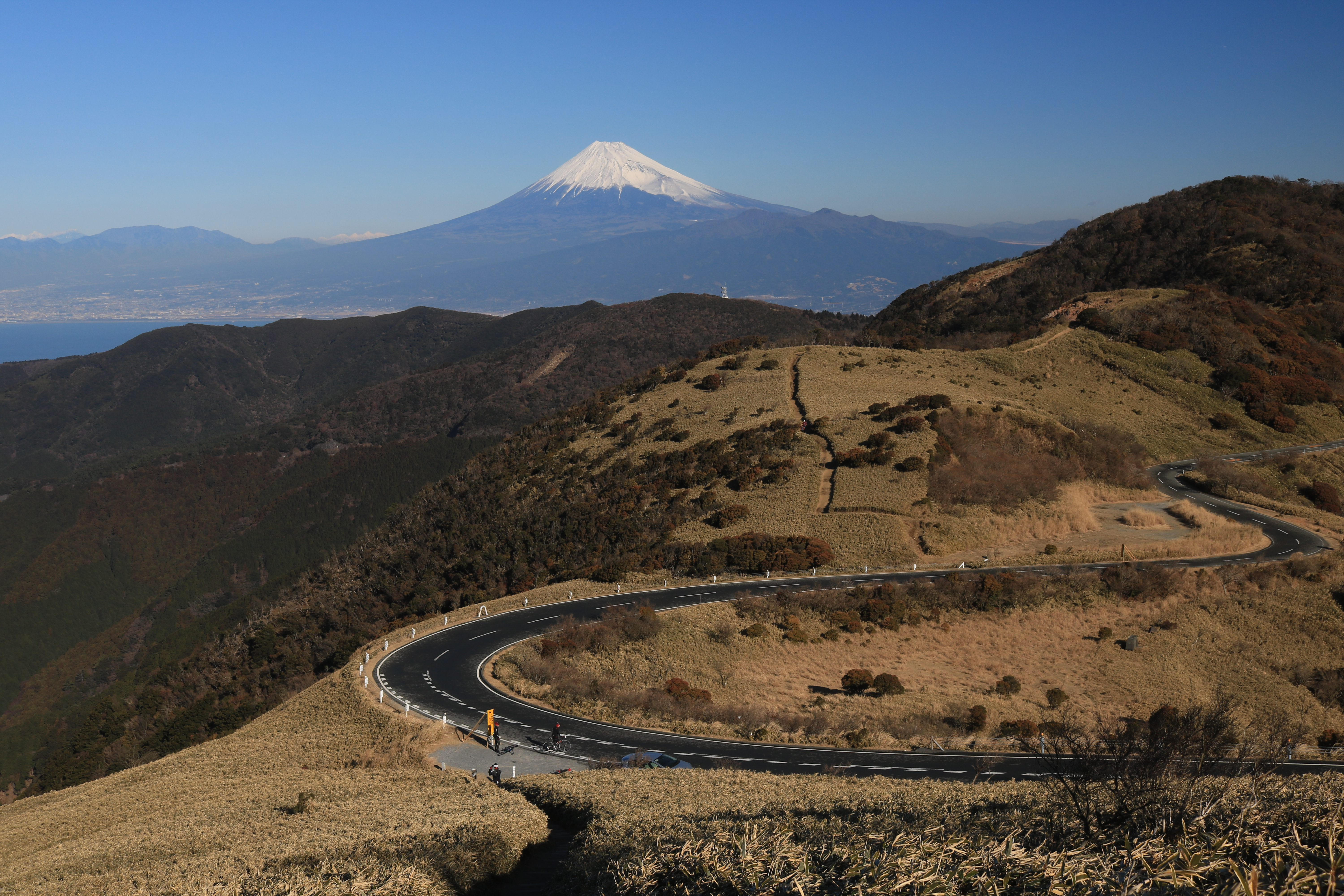 Nishiizu Skyline (Shizuoka Prefectural Road Route 127) and Mount Fuji seen from Mount Daruma in Shizuoka Prefecture, Japan.